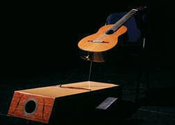 photo of Brahms guitar by Paul Galbraith - Author Peter J. O'toole - used with permission